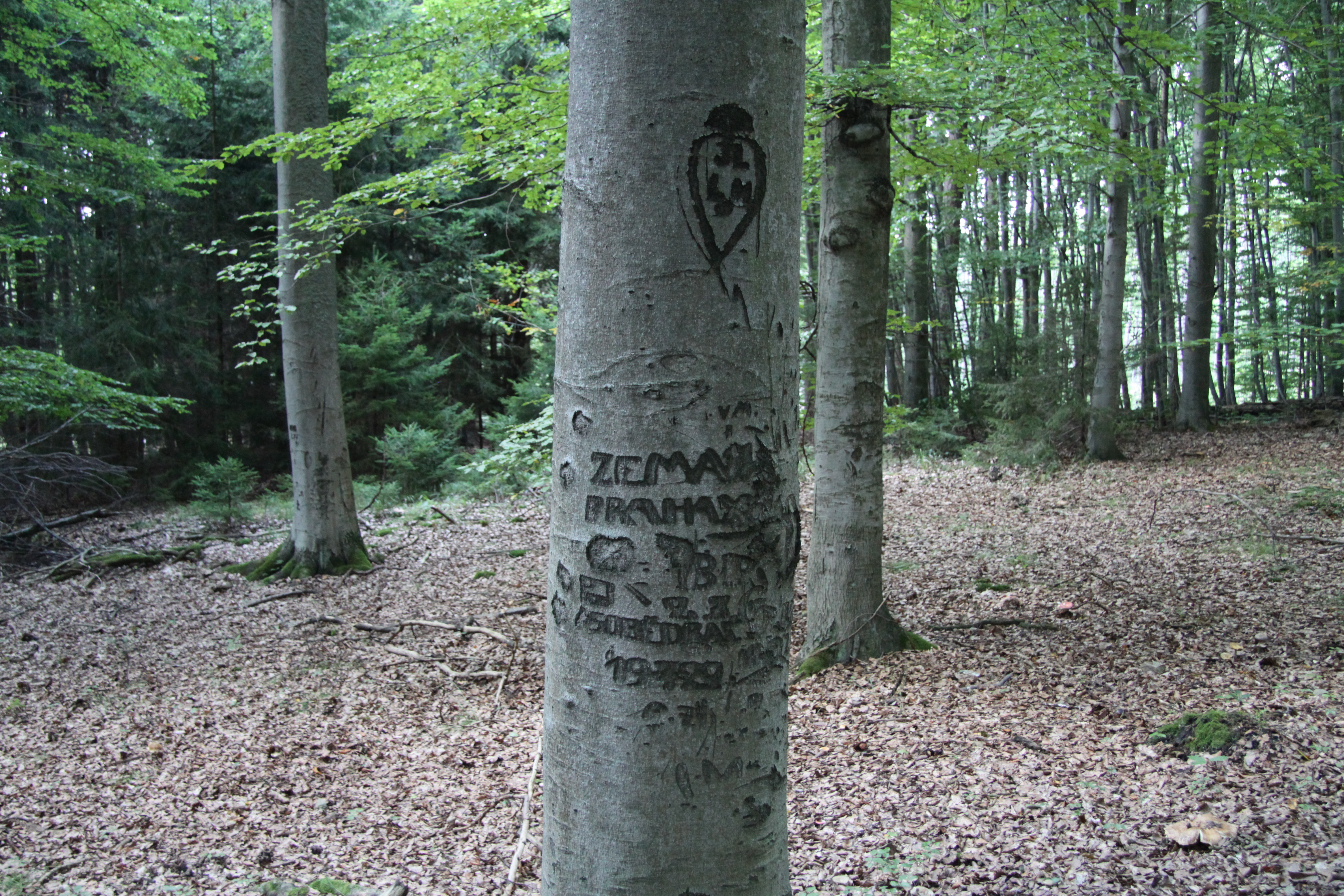 Natural monument Sobědražský prales in Písek District, Czech Republic.